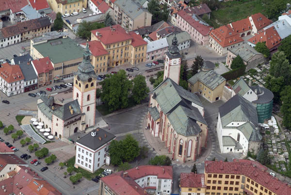 Banská Bystrica, castle, Slovakia, aerial photography